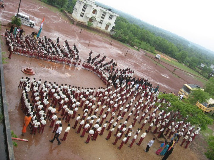 School pupils gathered on the of Independence day.